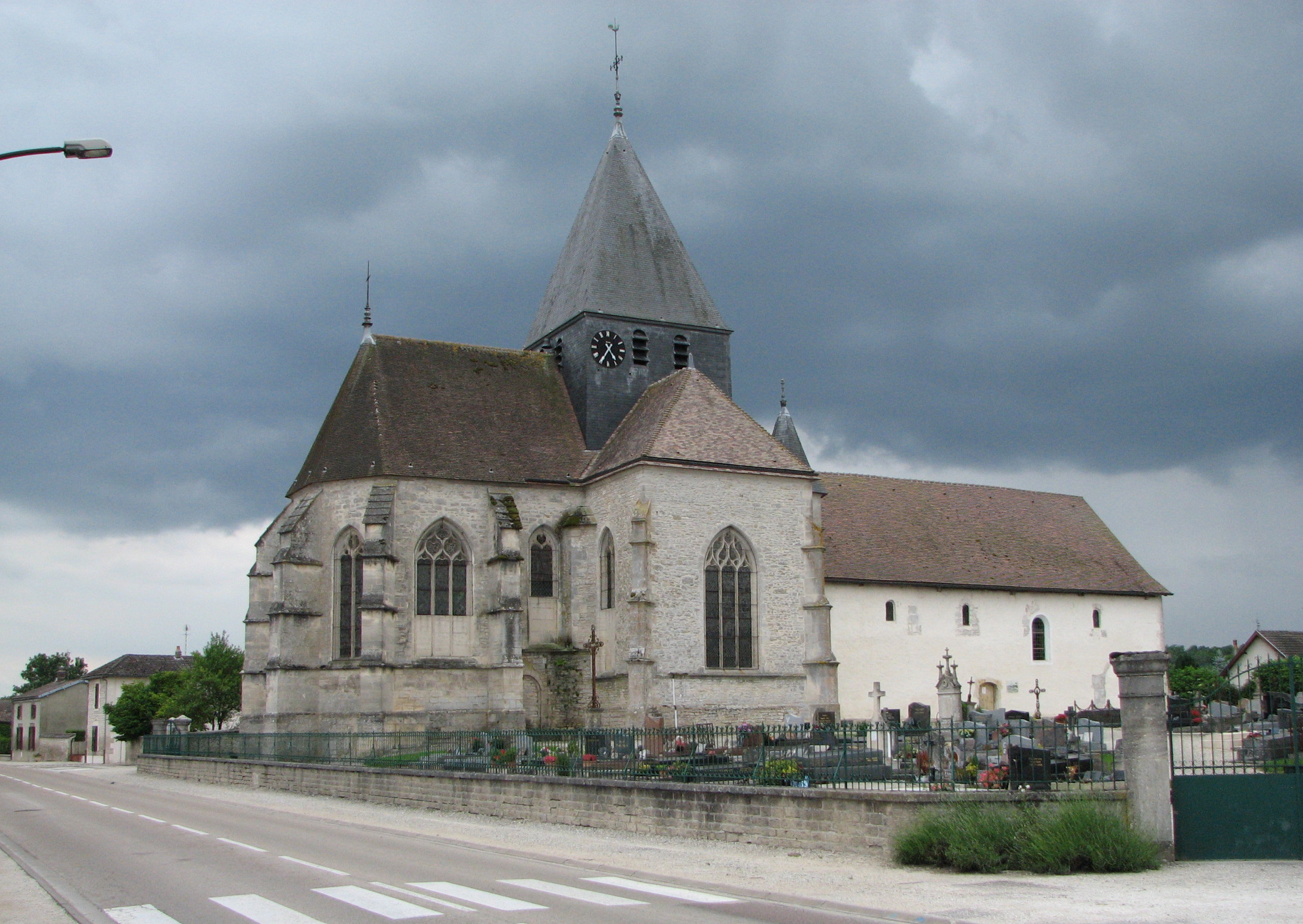 Eglise de Brienne-la-Vieille